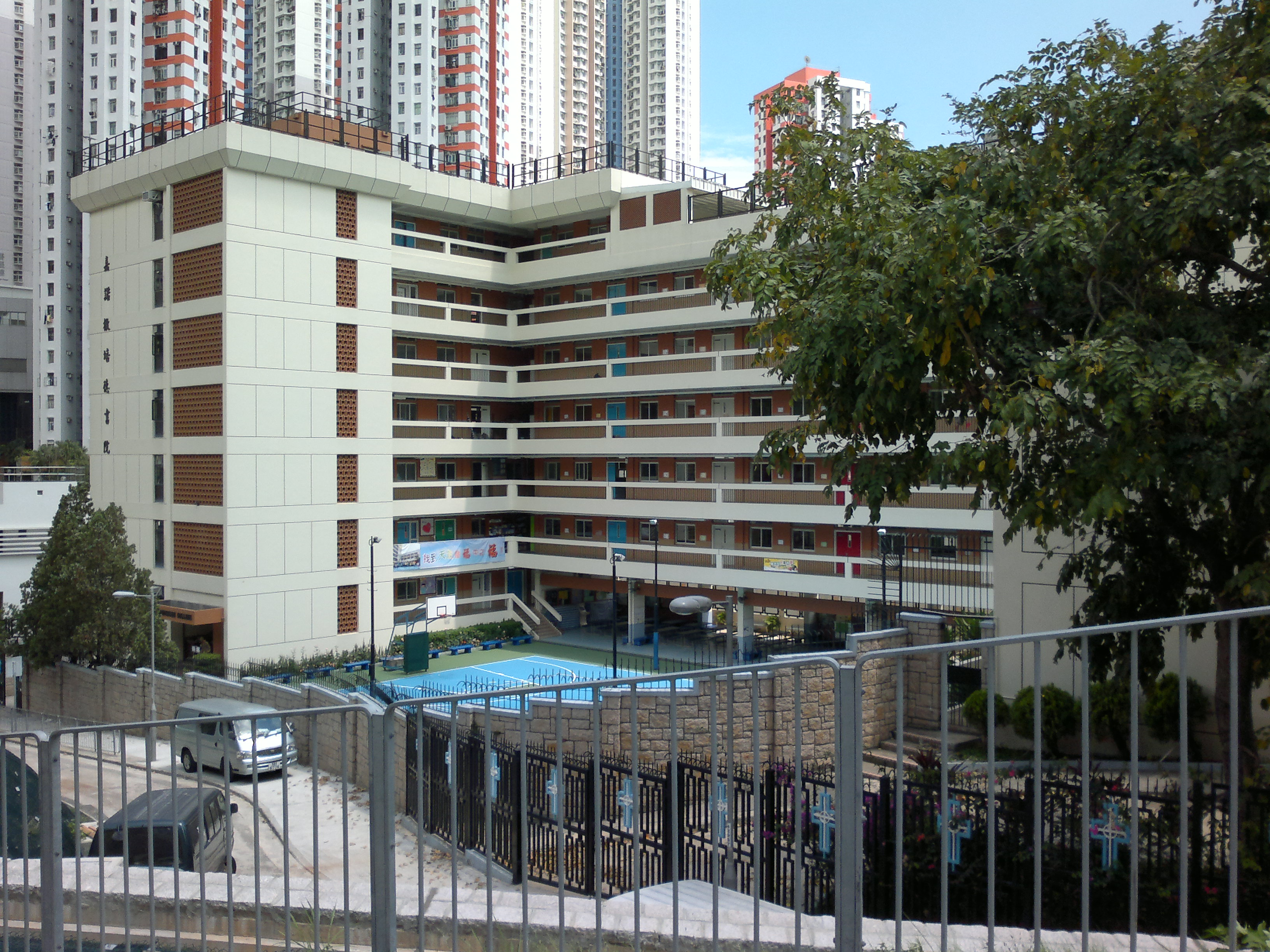 Pui Tak Canossian College viewed from Peel Rise